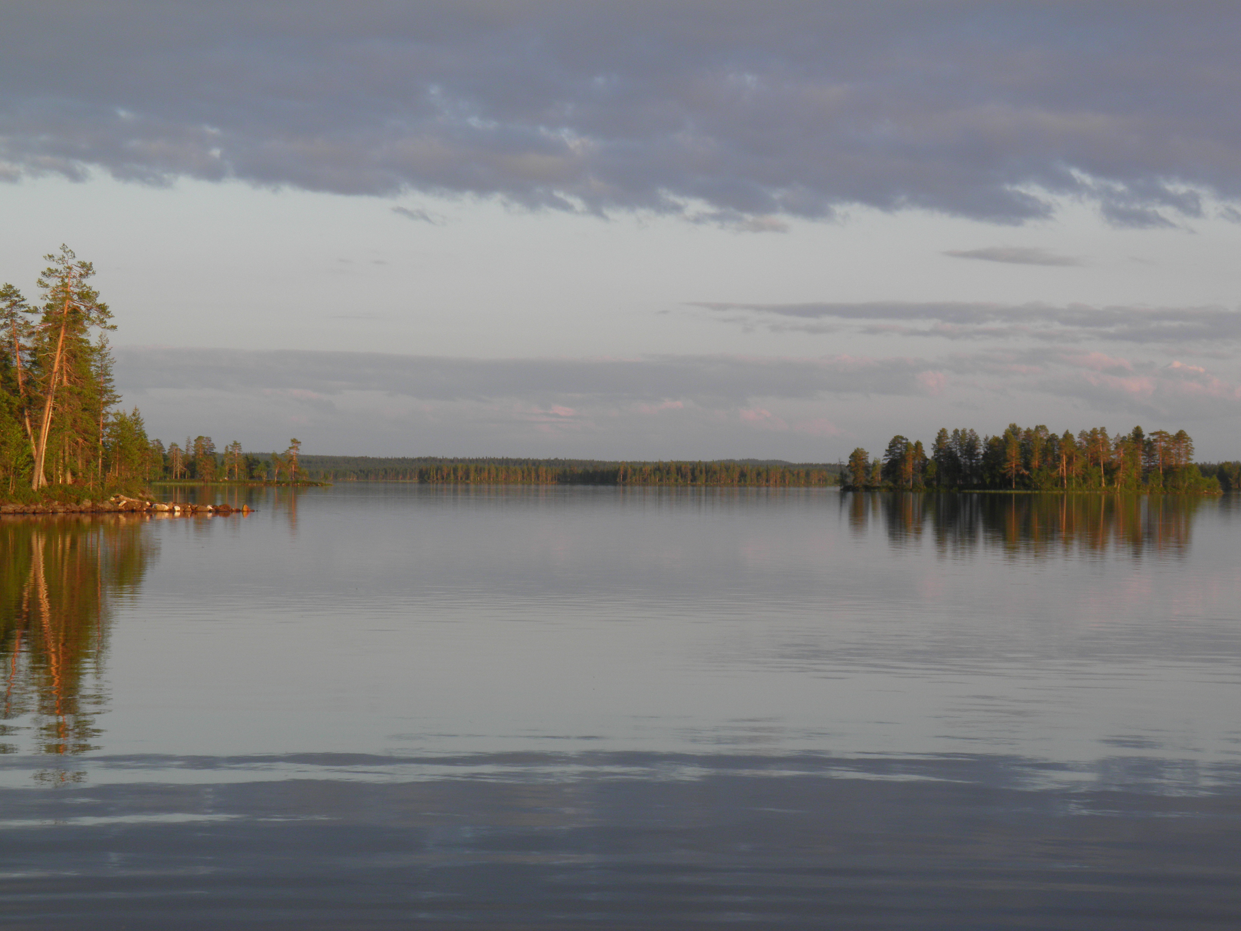 Lake Simojärvi, Ranua, Finland